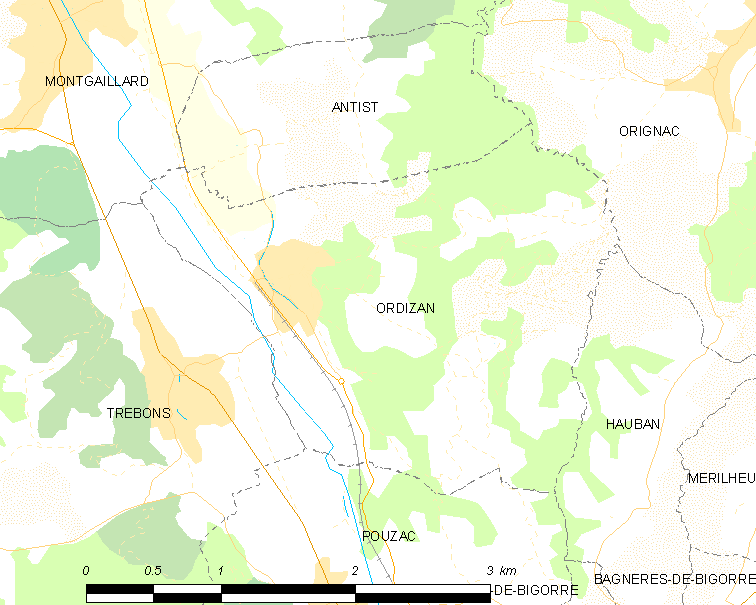 Map of French municipality